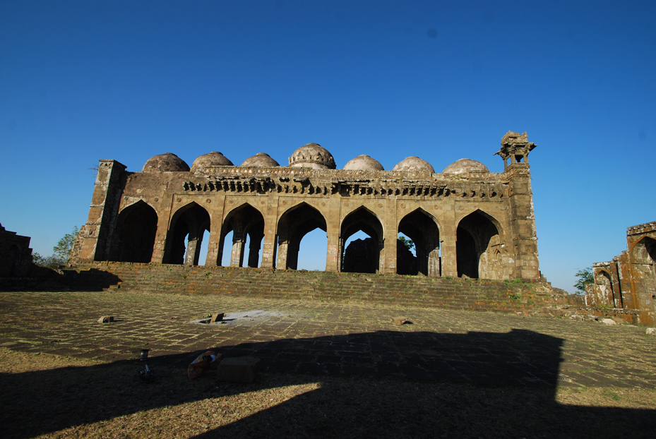 Gawilgarh Fort ( The walls & the whole area contained by them)